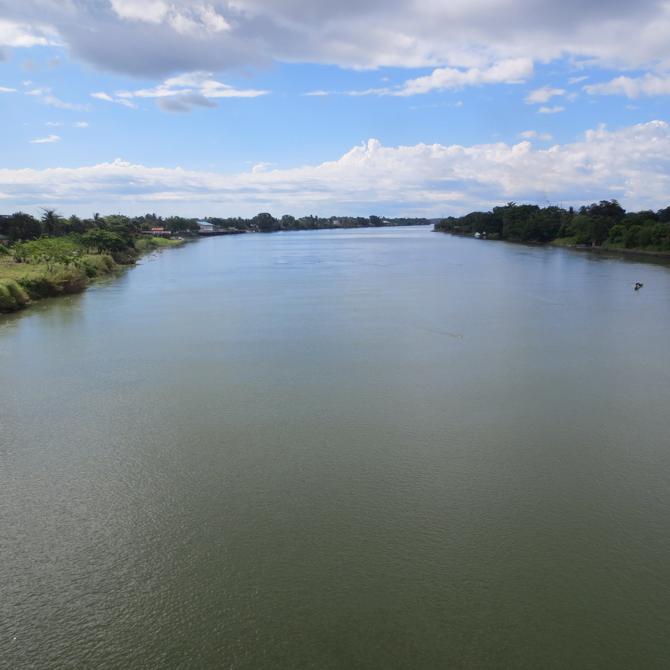 Agusan river, Butuan city, Philippines